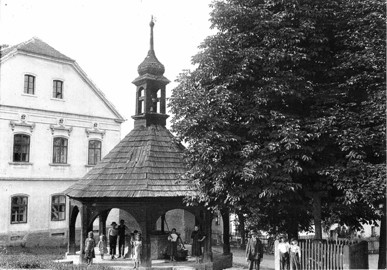 Old photograph of a baroque well in Střížovice.